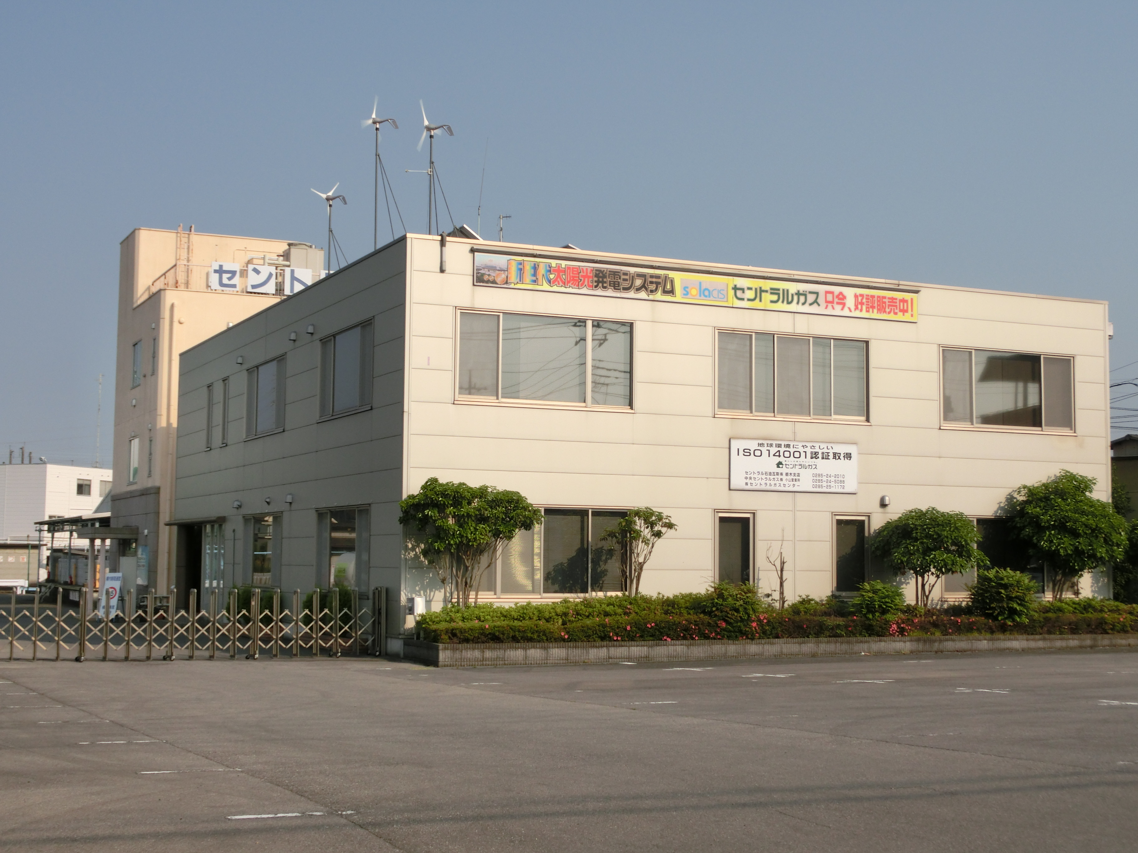 Central Gas Center Head Office